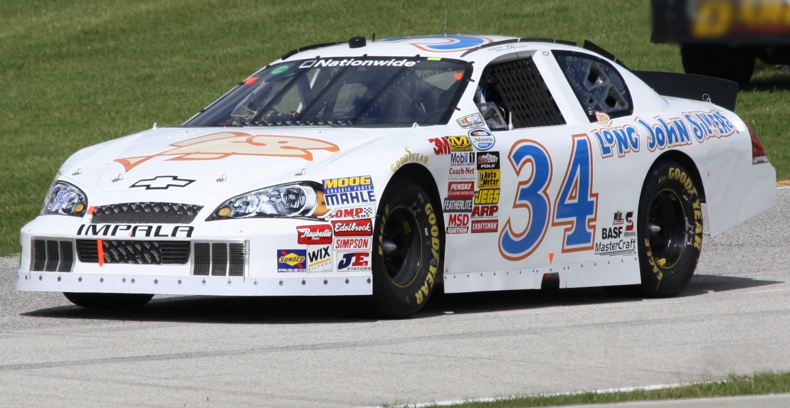 The NASCAR racecar for driver Tony Raines at the 2010 Bucyrus 200 at Road America.